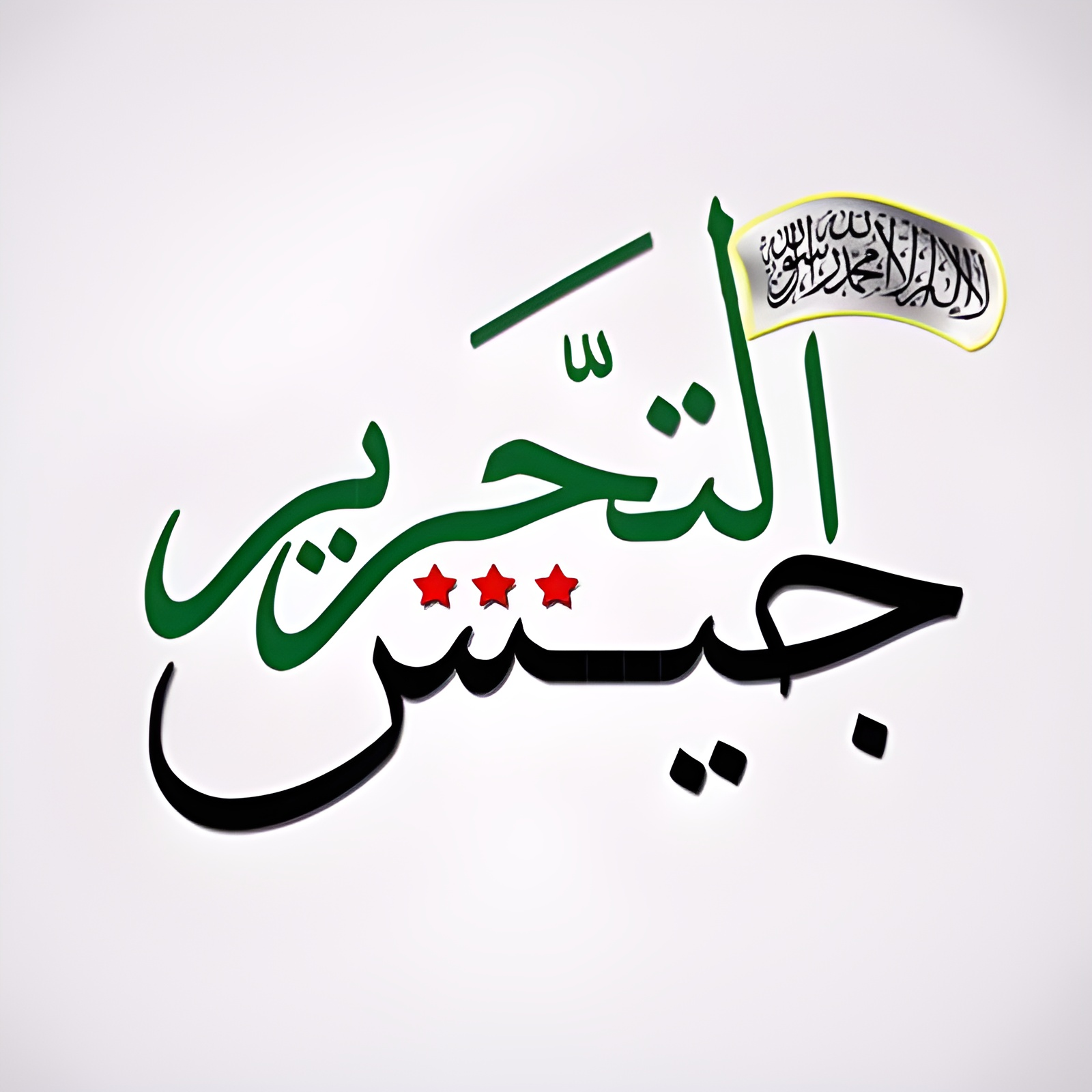 The logo of Jaish al-Tahrir (Liberation Army), a Free Syrian Army group in Hama and Aleppo.